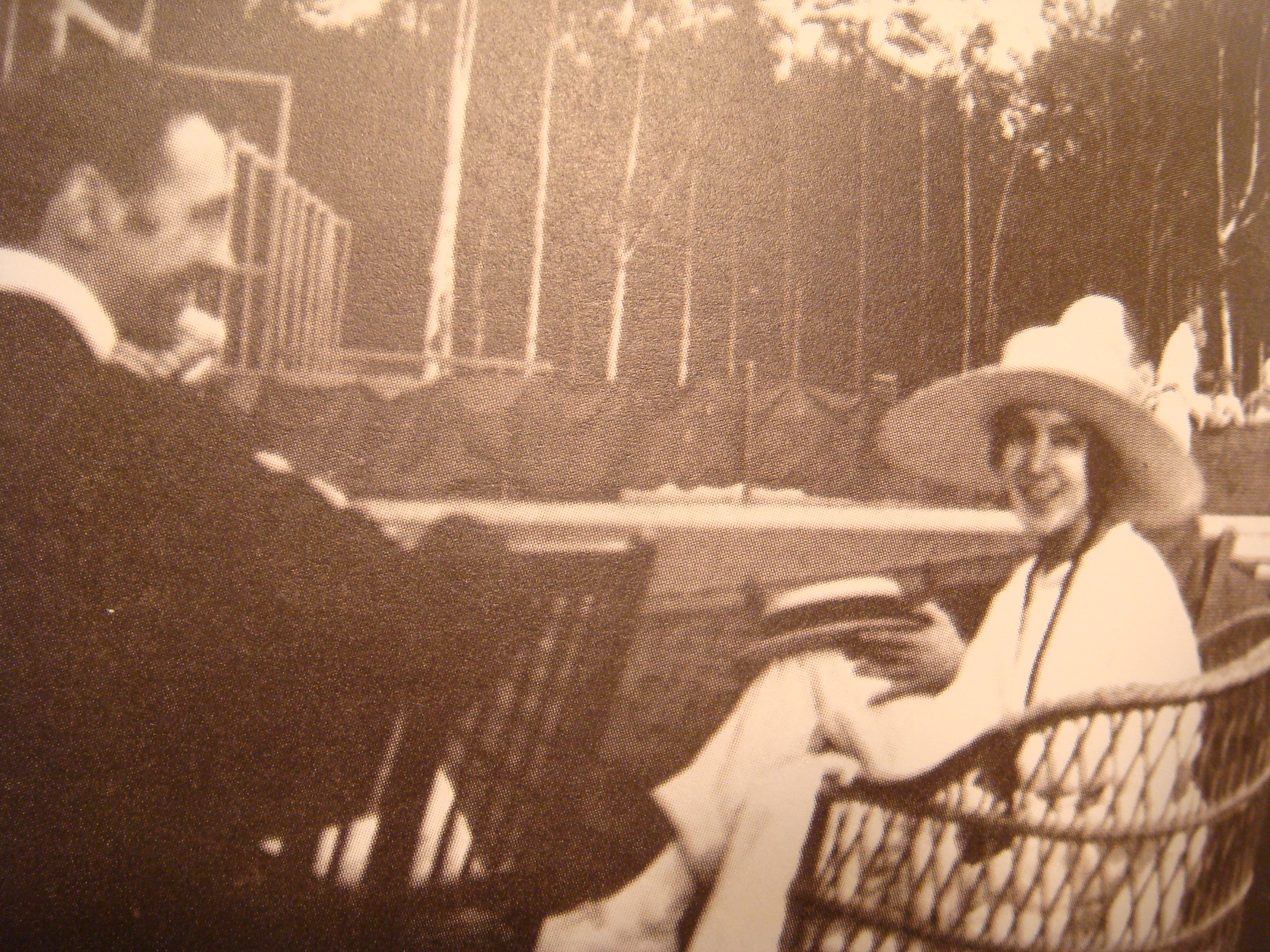 British Naval Attaché Captain Francis Cromie, socialising at a tennis club in Petrograd (Saint Petersburg), Russia, 1918.